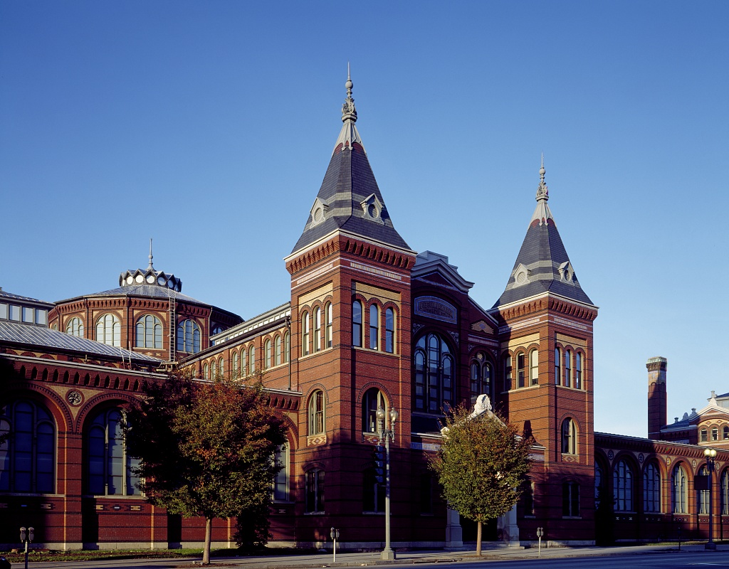 The Smithsonian Institution's Arts and Industries Building on the National Mall, Washington, D.C.